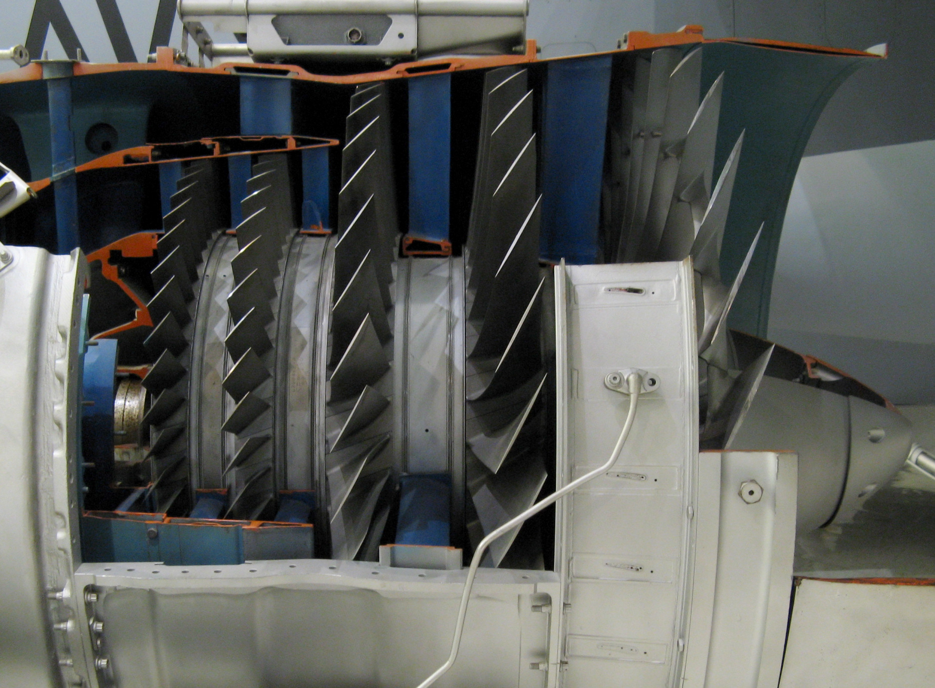 A Pratt & Whitney TF30-P-6 at the Naval Aviation Museum in Pensacola, Florida. Detail of low pressure compressor and fan.